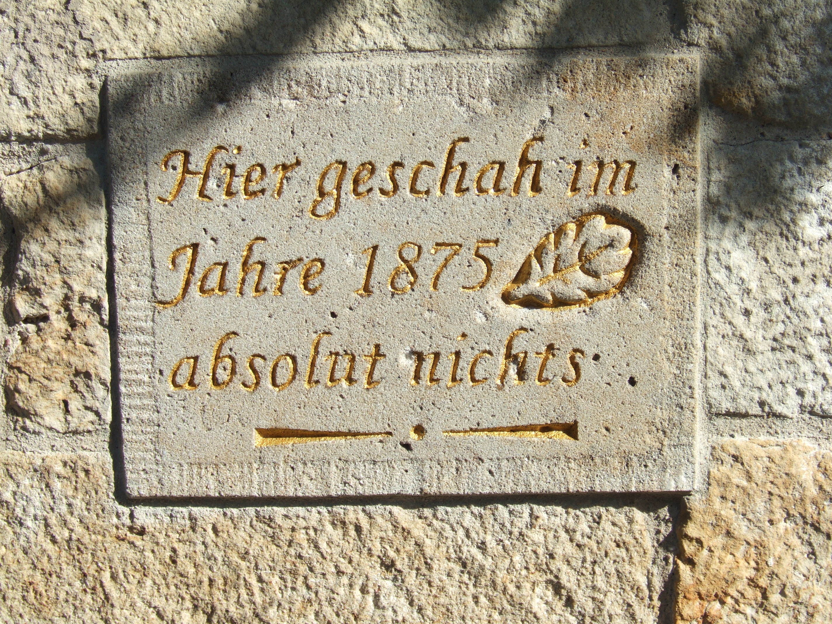 Commemorative plaque in Dresden, Plattleite (Germany),German text says: „Here happened in the year 1875 absolutely nothing.“